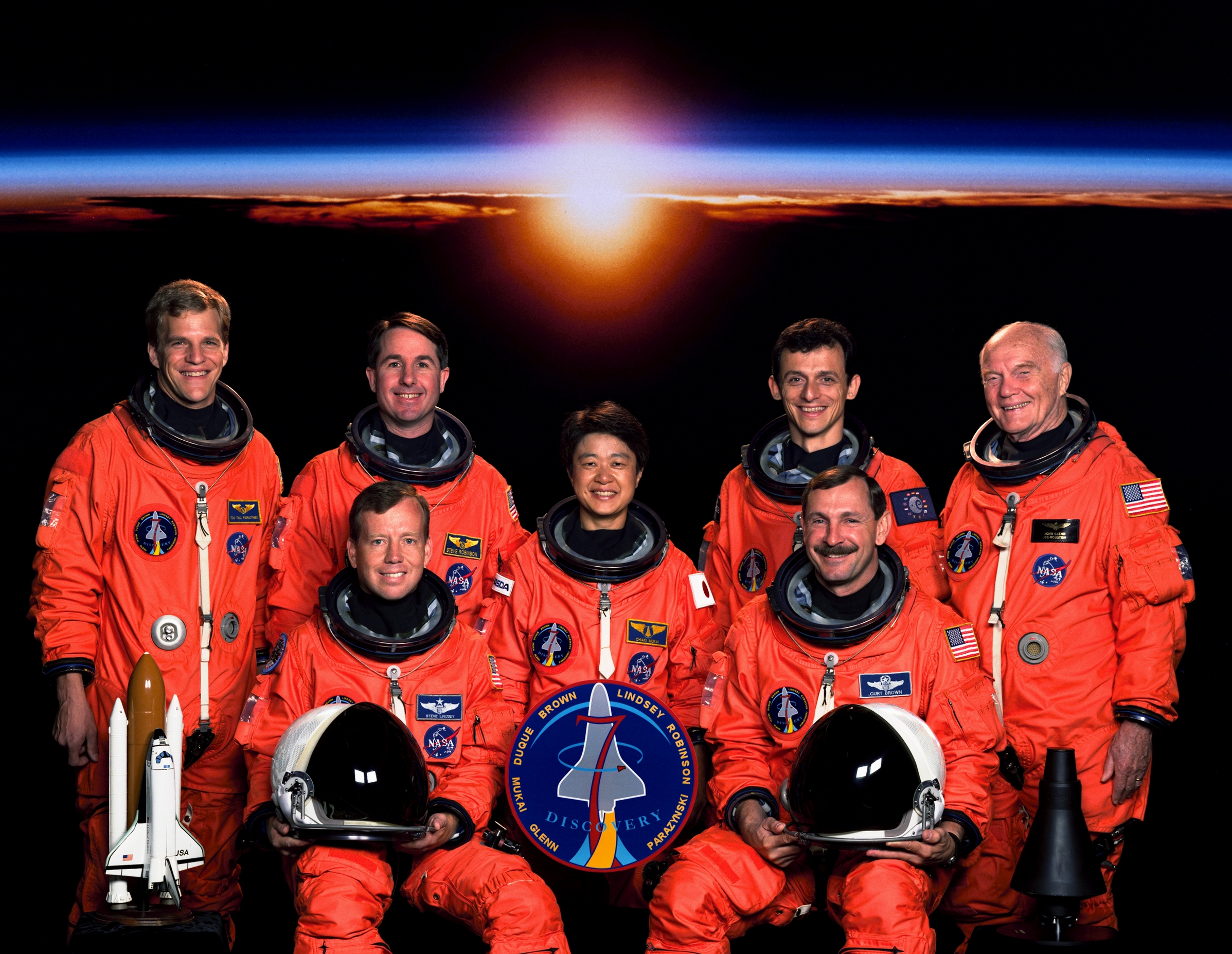 Five astronauts based at the Johnson Space Center (JSC) and two payload specialists take a break from their training schedule to pose for the STS-95 pre-flight portrait. Seated are astronauts Curtis L. Brown Jr. (right), mission commander; and Steven W. Lindsey, pilot. Standing, from the left, are Scott F. Parazynski and Stephen K. Robinson, both mission specialists; Chiaki Mukai, payload specialist representing Japan's National Space Development Agency (NASDA); Pedro Duque, mission specialist representing the European Space Agency (ESA); and U.S. Sen. John H. Glenn Jr., payload specialist. The seven are scheduled to be launched into Earth orbit aboard the Space Shuttle Discovery in late October of this year.